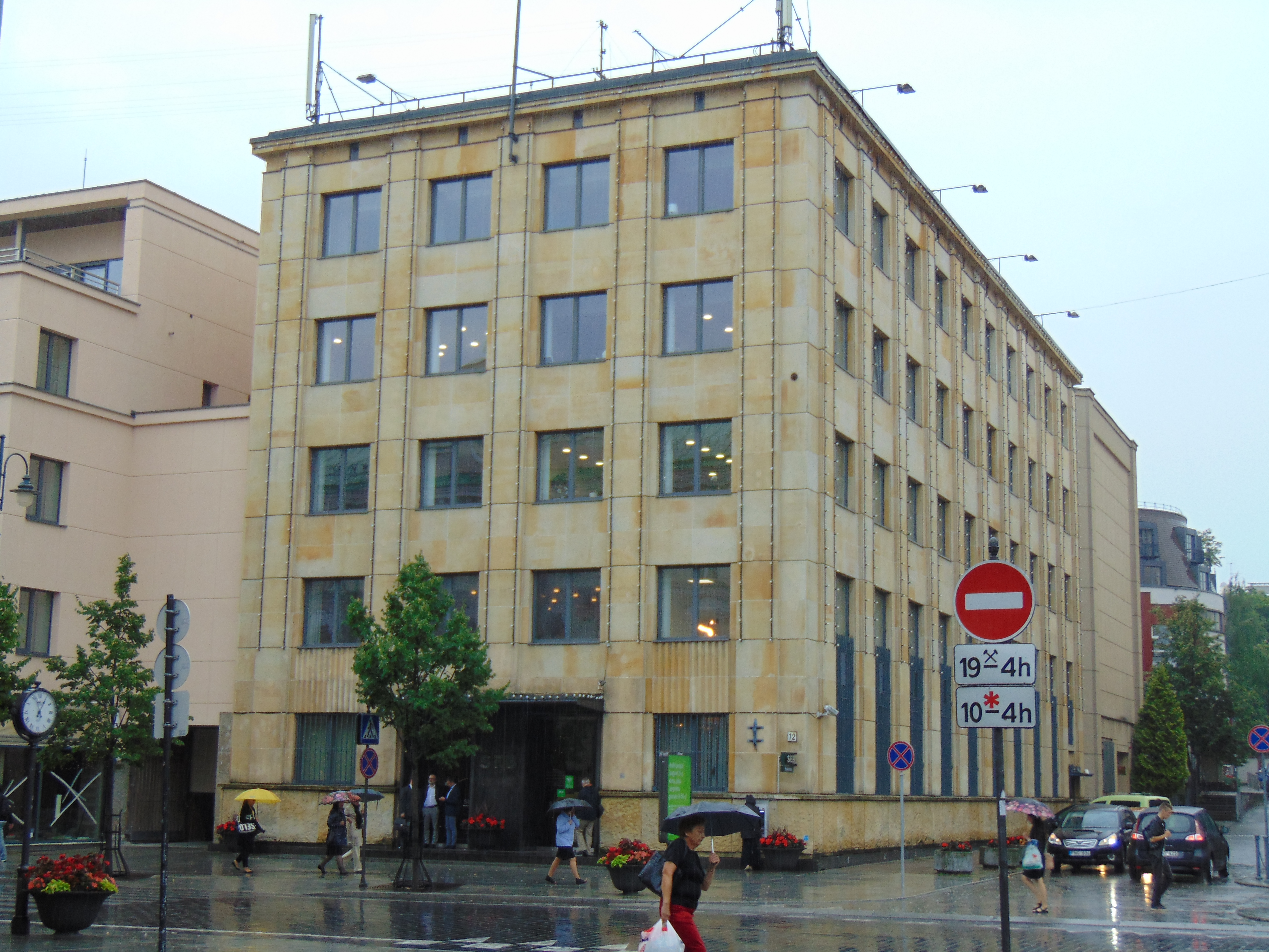 SEB bankas headquarters